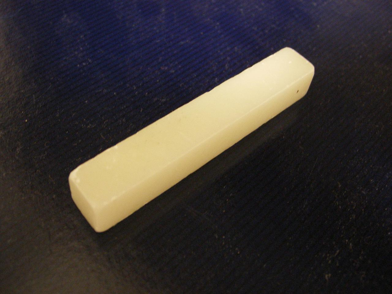 Agalmatolite